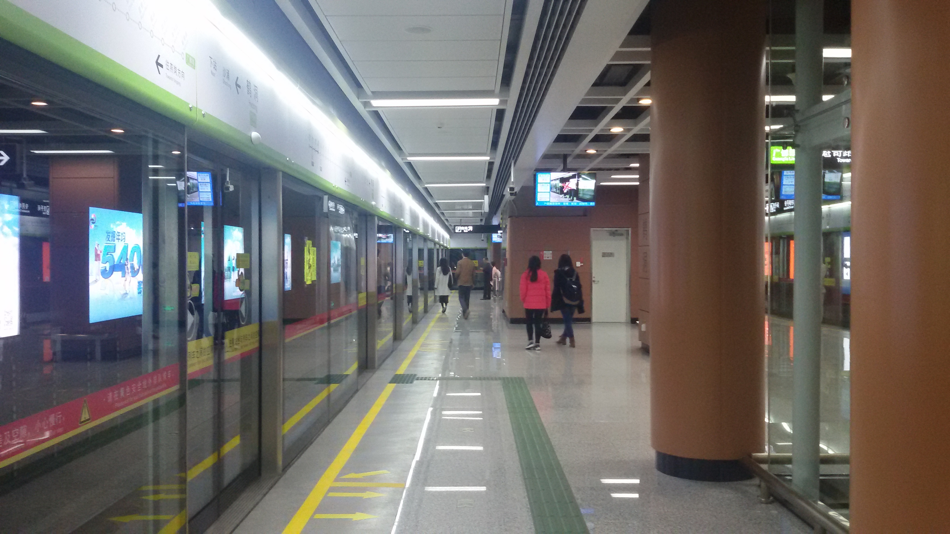 Platform for Hedong Station (Towards Yangang) in FMetro.